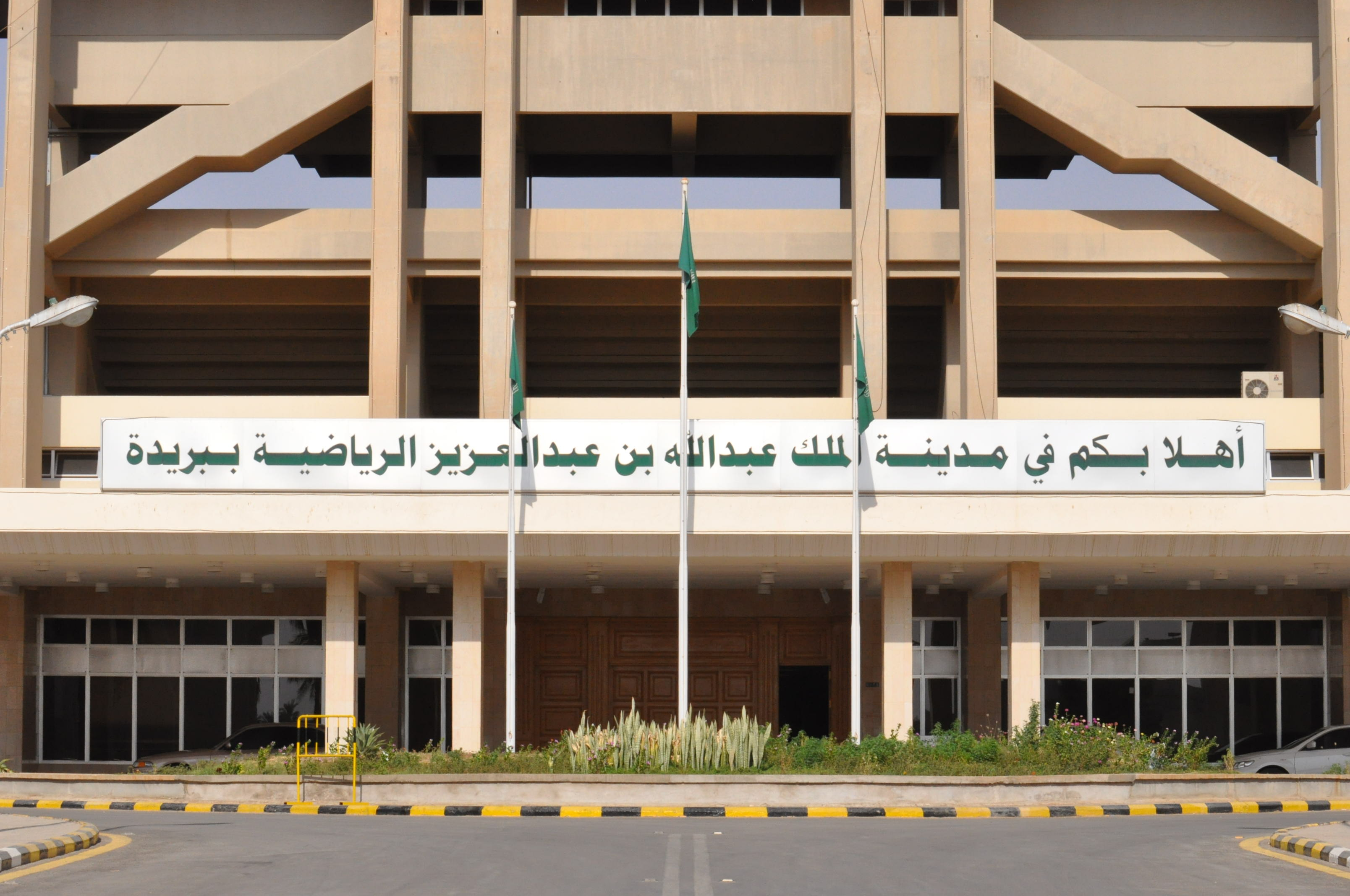 King Abdullah Sport City Stadium 30 Sep 2010